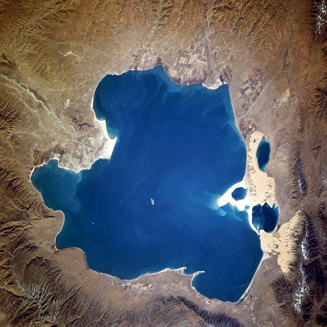 Qinghai Lake, China - also, originally known as Koko Nor in Mongolian and Tso Ngonpo in Tibetan - November 1994